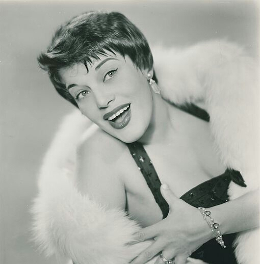 Kaye Ballard photographed by Maurice Seymour (New York) late 1950s. Published as a publicity photo with name of MCA talent agency at bottom of picture. Published without copyright notification. MCA ceased to operate as a talent agency in 1962.